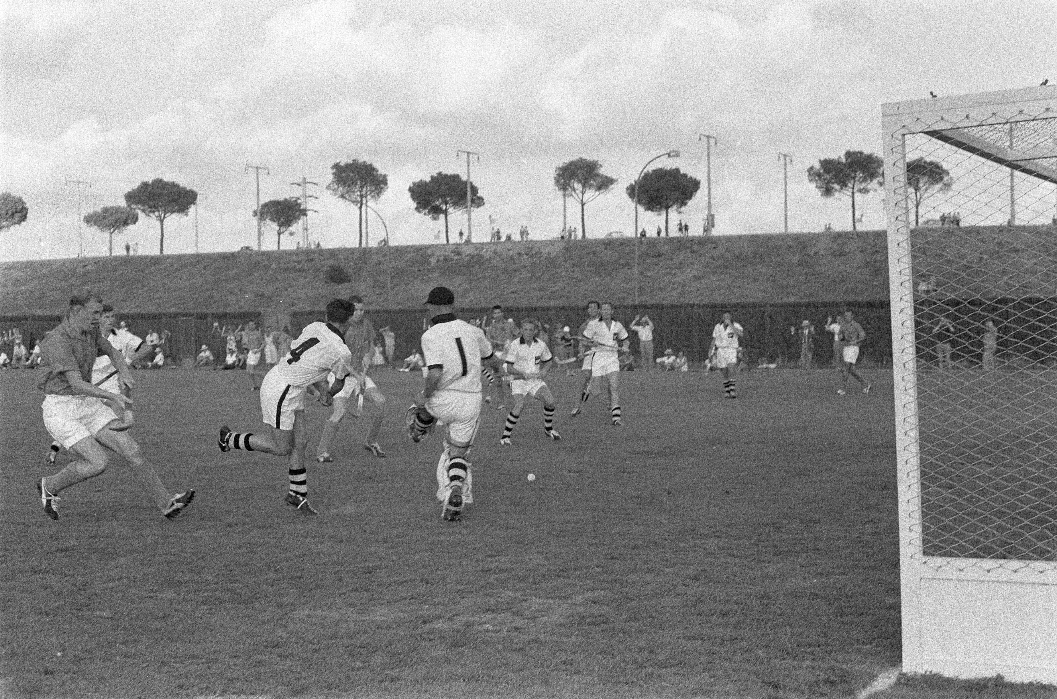 Tie-breaker field hockey match between New Zealand and the Netherlands to determine the second place in the group A of field hockey tournament at the 17th Olympic games in Rome; the match was played at the Tre Fontane Stadium and was won 2:1 by New Zealand